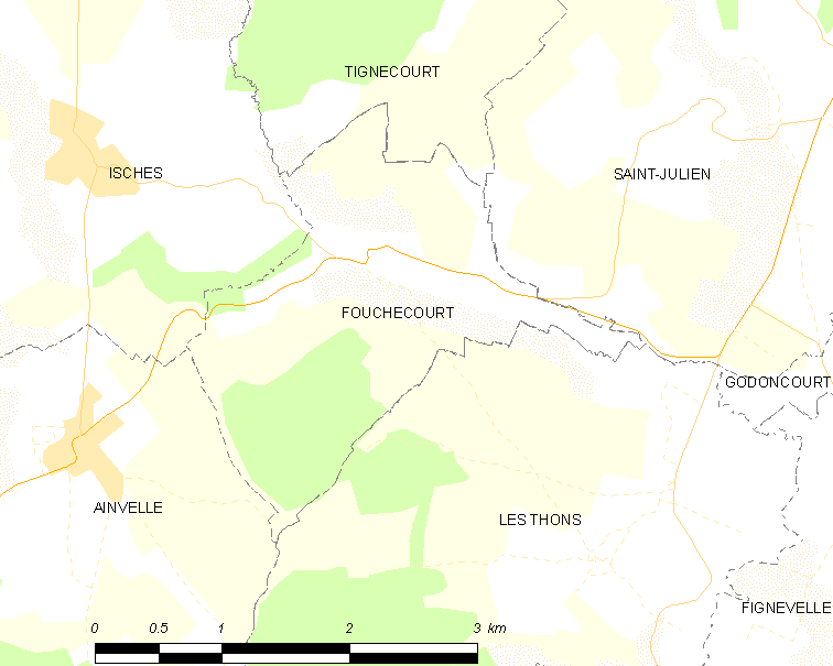 Map of French municipality Fouchécourt